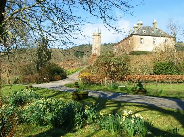 Ardmaddy Castle There has been a castle at Ardmaddy for centuries. In 1620, the existing castle was burned down and was rebuilt by the Campbells in 1671. The present building dates from the 18th and 19th centuries. Nowadays, Ardmaddy is well-known for its attractive gardens.